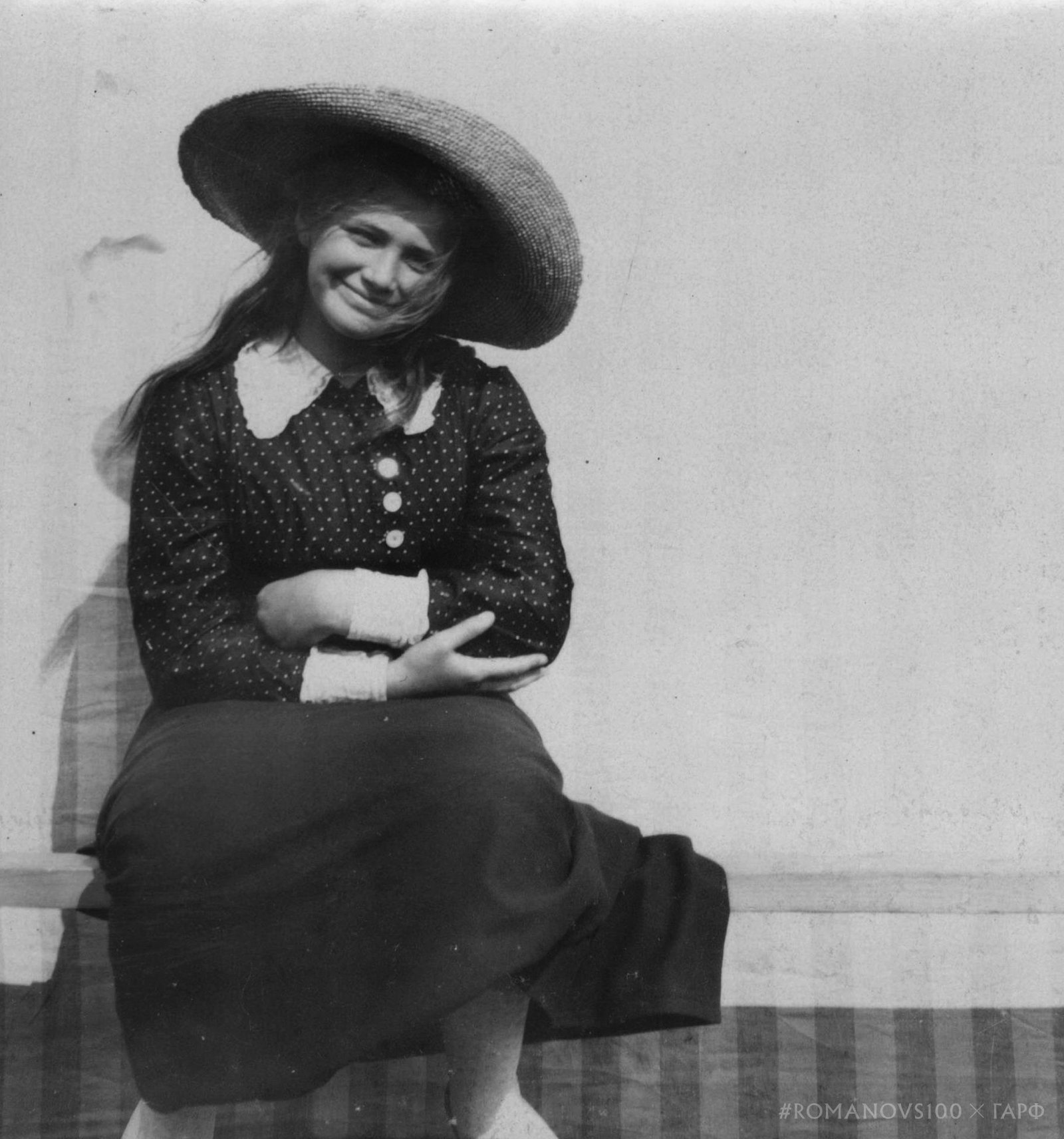 Smiling Maria Nikolaevna, probably Finland, circa 1912 - 1913